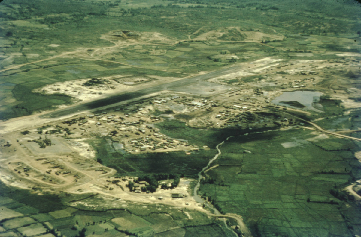 LZ Baldy where D Company, 39th Engineer Battalion has been based while constructing Route 535 from LZ Baldy to LZ Ross